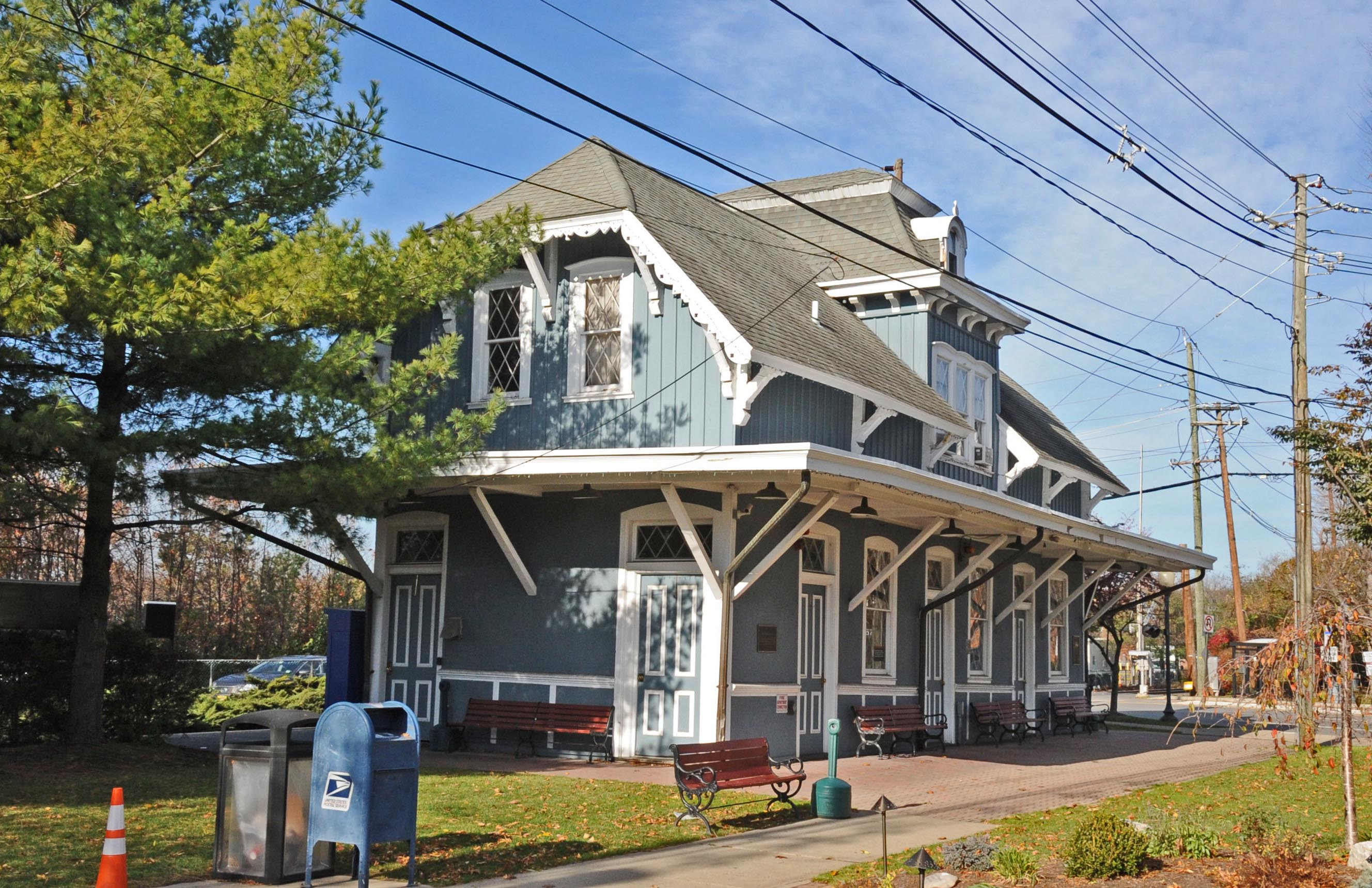 THE ORIGINAL STATION HOUSE, BUILT 1869 AS THE TERMINUS AND HEADQUARTERS OF THE NEW JERSEY AND NEW YORK RAILROAD